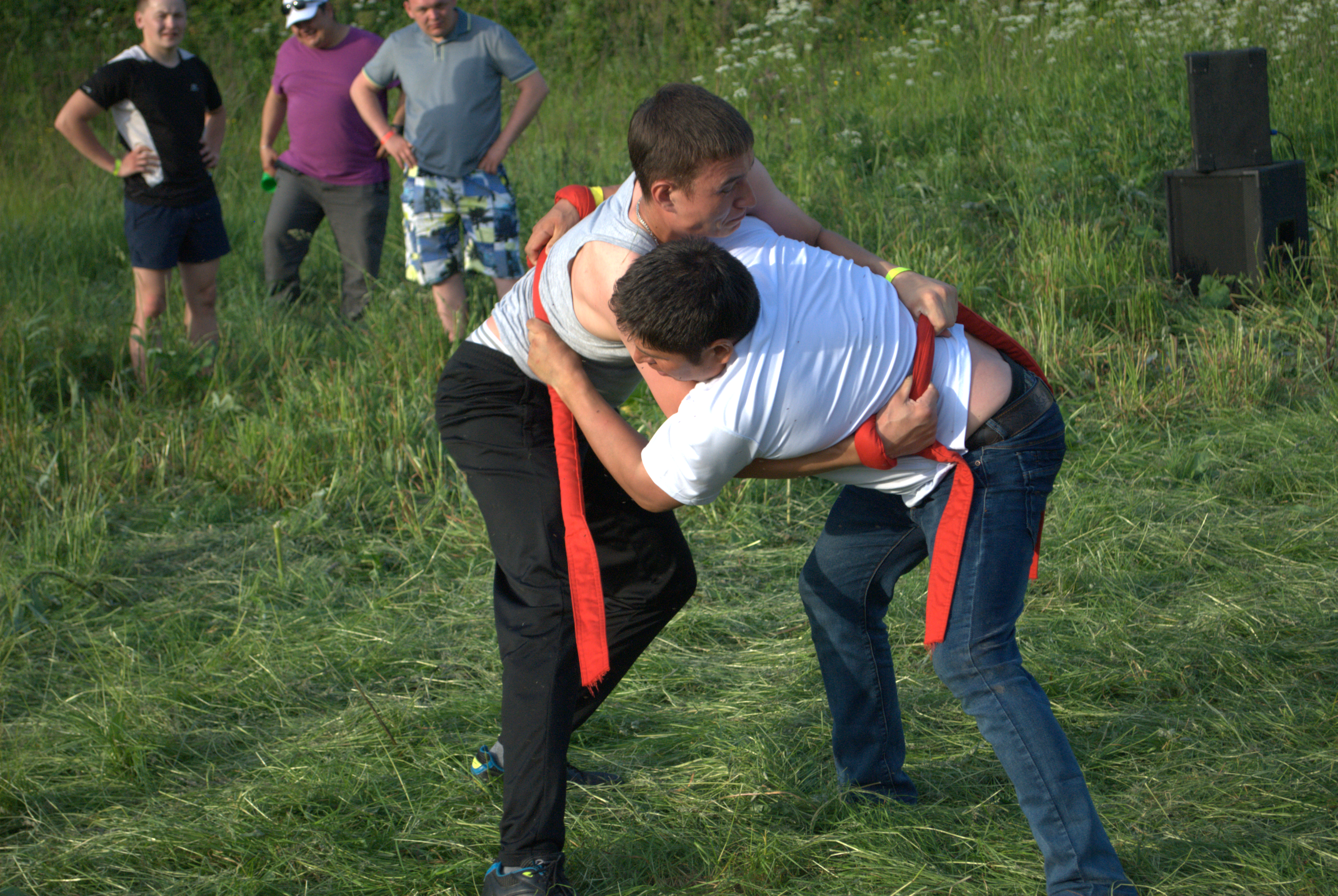 Kurash on Moscow Sabantuy of Moscow bashkirsБашҡортса: Башҡорттар Мәскәү һабантуйында